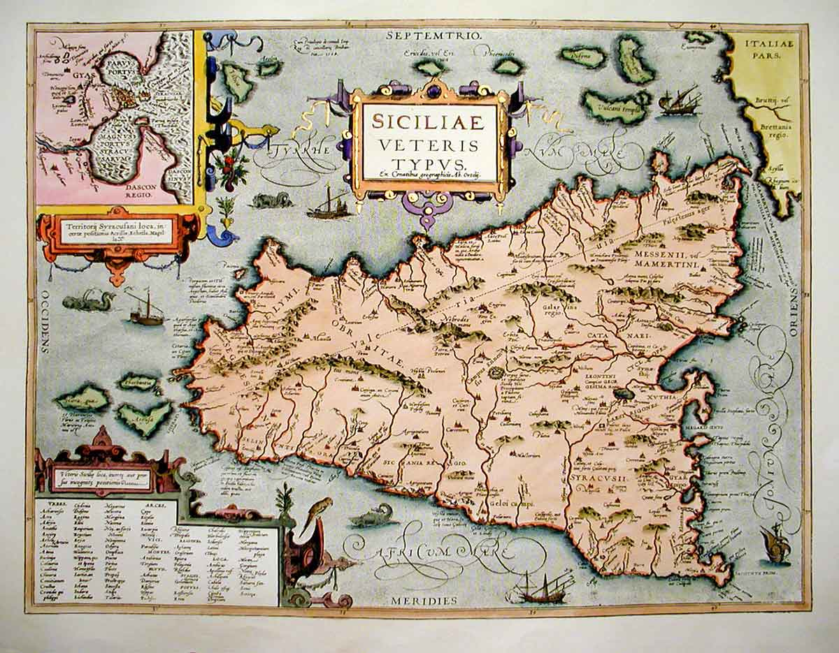 Map of ancient Sicily with the port of Syracuse by Abraham Ortelius